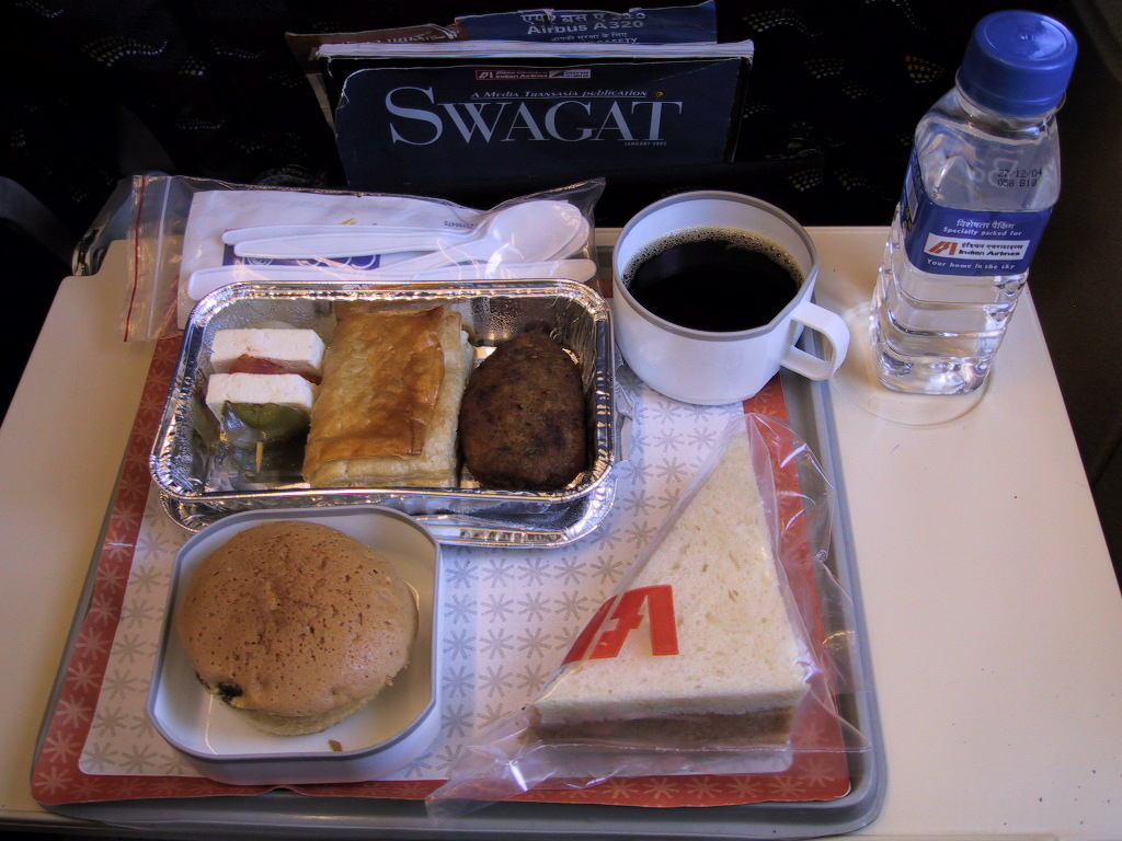 In-flight snacks in Indian Airlines Flight.